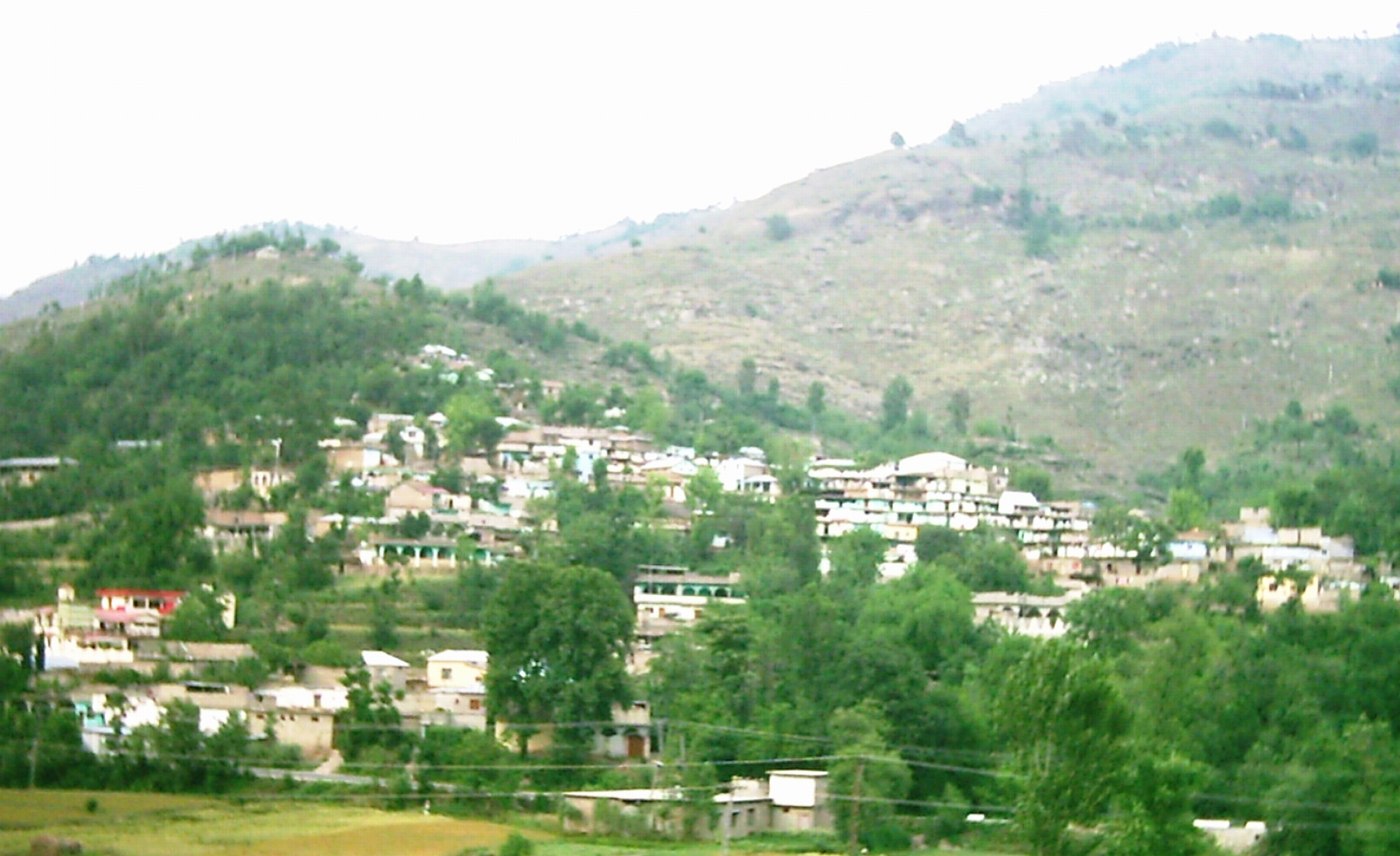 Picture of village Chappargram